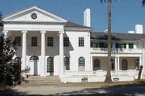 Plum Orchard — an 1898 Carnegie family mansion on Cumberland Island, in Camden County, Georgia. In the Plum Orchard Historic District, on the National Register of Historic Places in Cumberland Island National Seashore. Credits National Park Service photo.